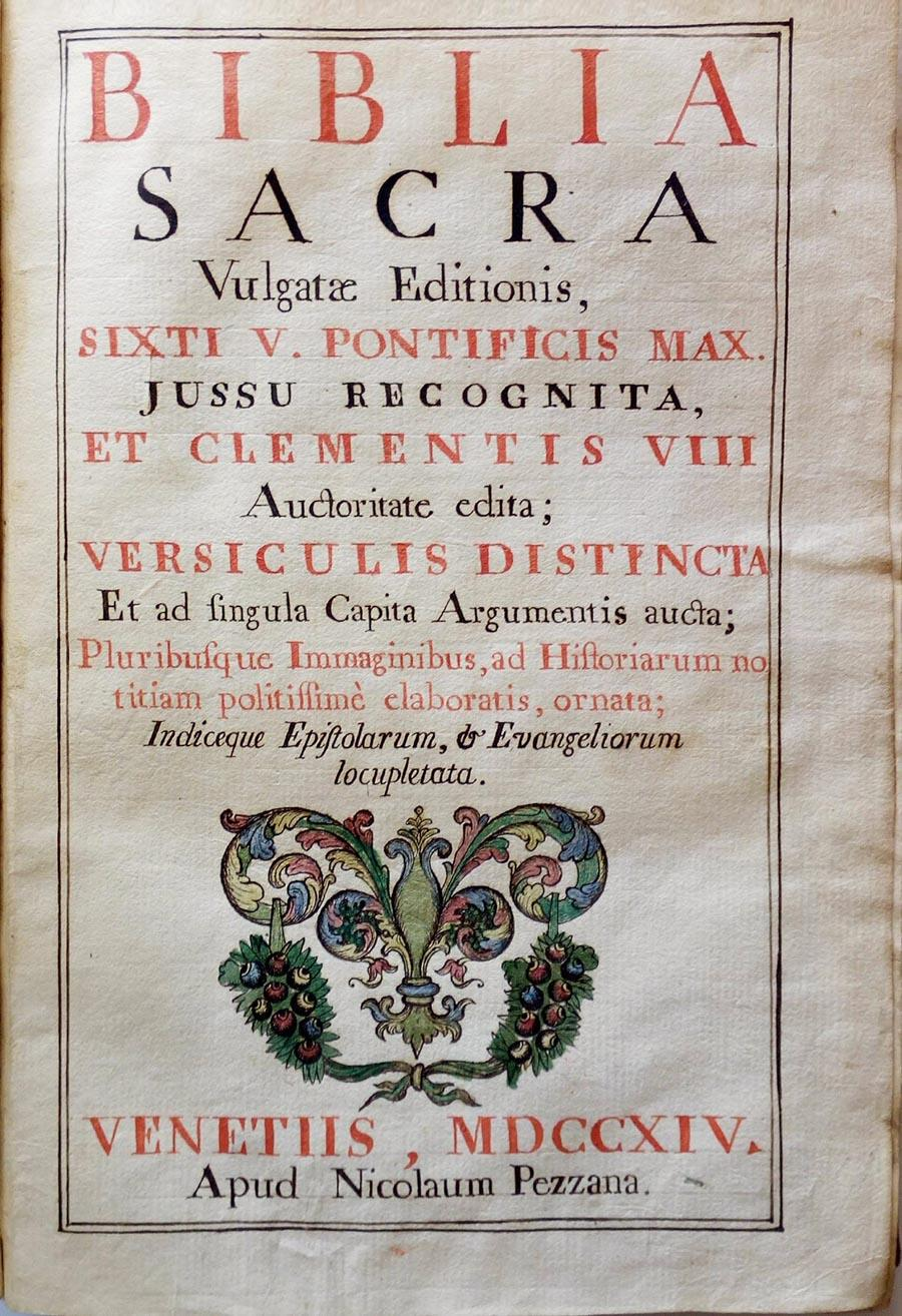 Sixto-Clementine Vulgate. The title reads: Biblia Sacra Vulgatae Editionis, Sixti V Pontificis max. jussu recognita, et Clementis VIII auctoritate edita; versiculum distincta et ad singula Capita Argumentis aucta; pluribusque Immaginibus, ad Historiarum notitiam politissime elaboratis, ornata; Indiceque Epistolarum, et Evangeliorum locupletata